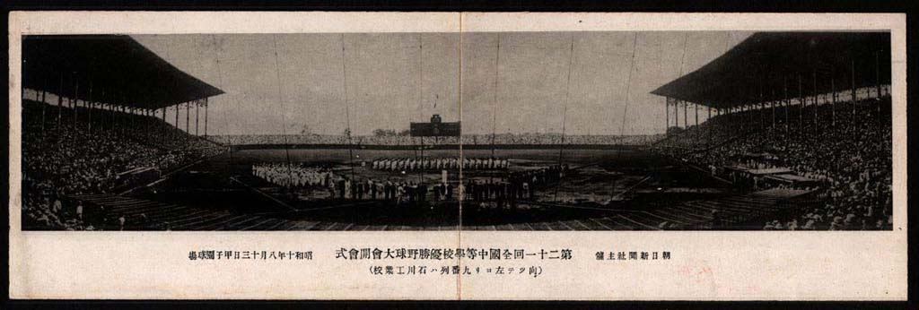 The 21st Annual National High School Baseball Championship opening ceremory (Kōshien Stadium)